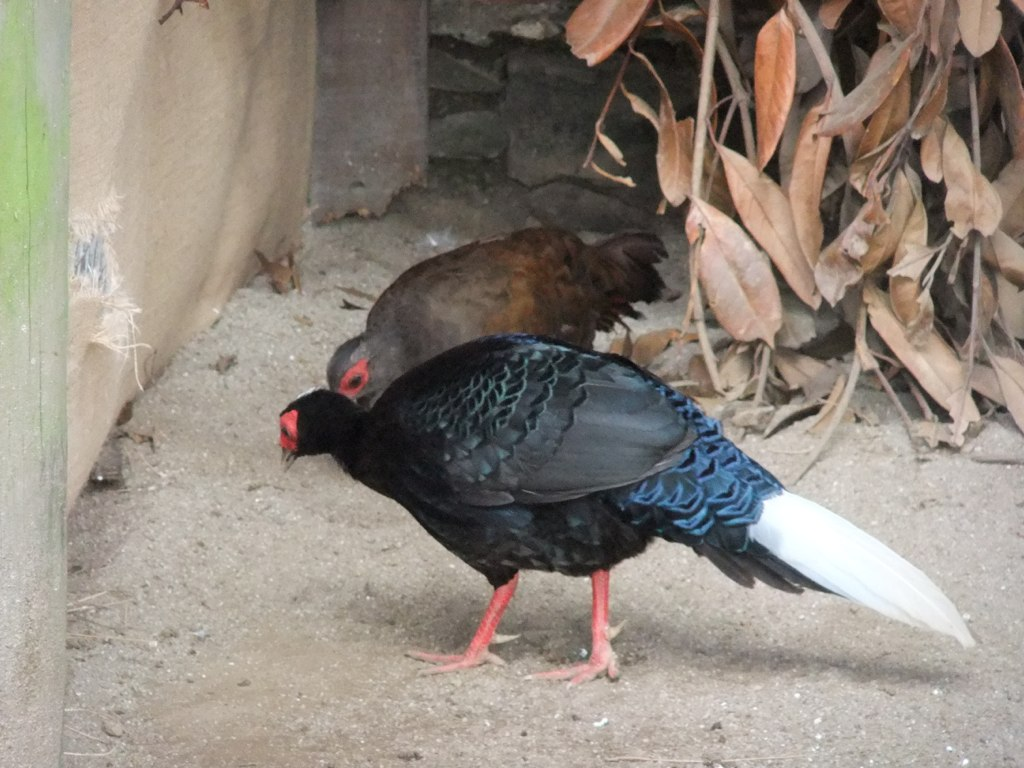 A pair of Vietnamese Pheasants at Camperdown Wildlife Centre, Dundee, Angus, Scotland.